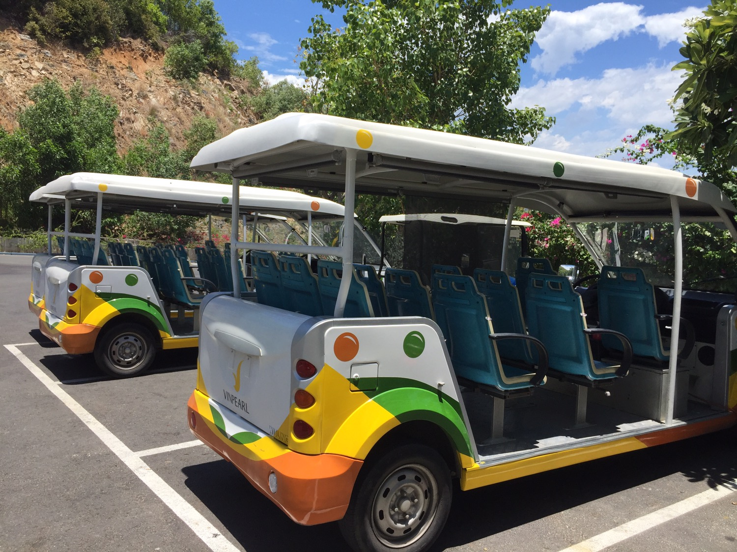 an electric car used by a Vinpearl.